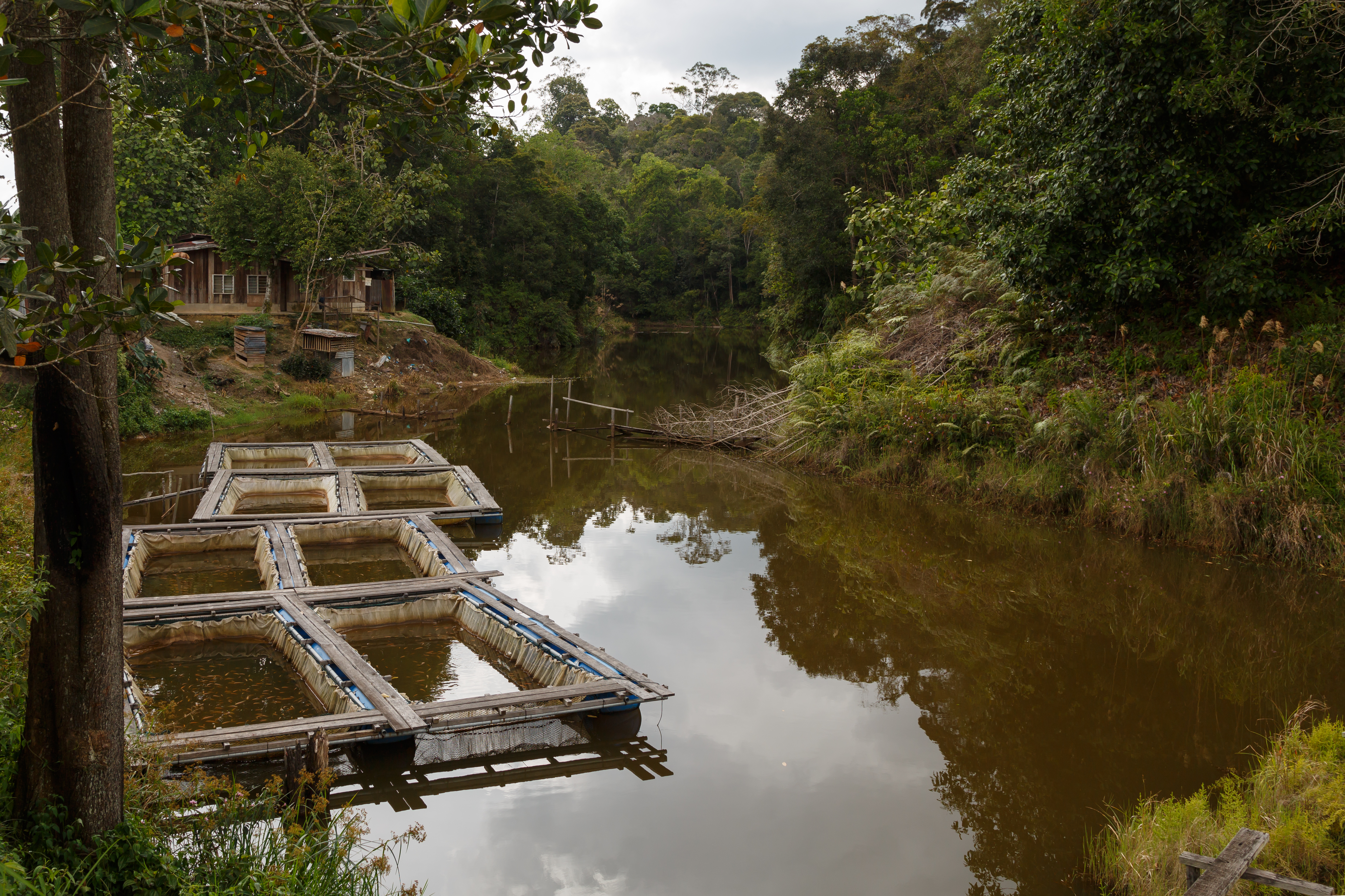 Tiang, Sabah, Malaysia: A fish aquaculture in a pond at Kampung Tiang.